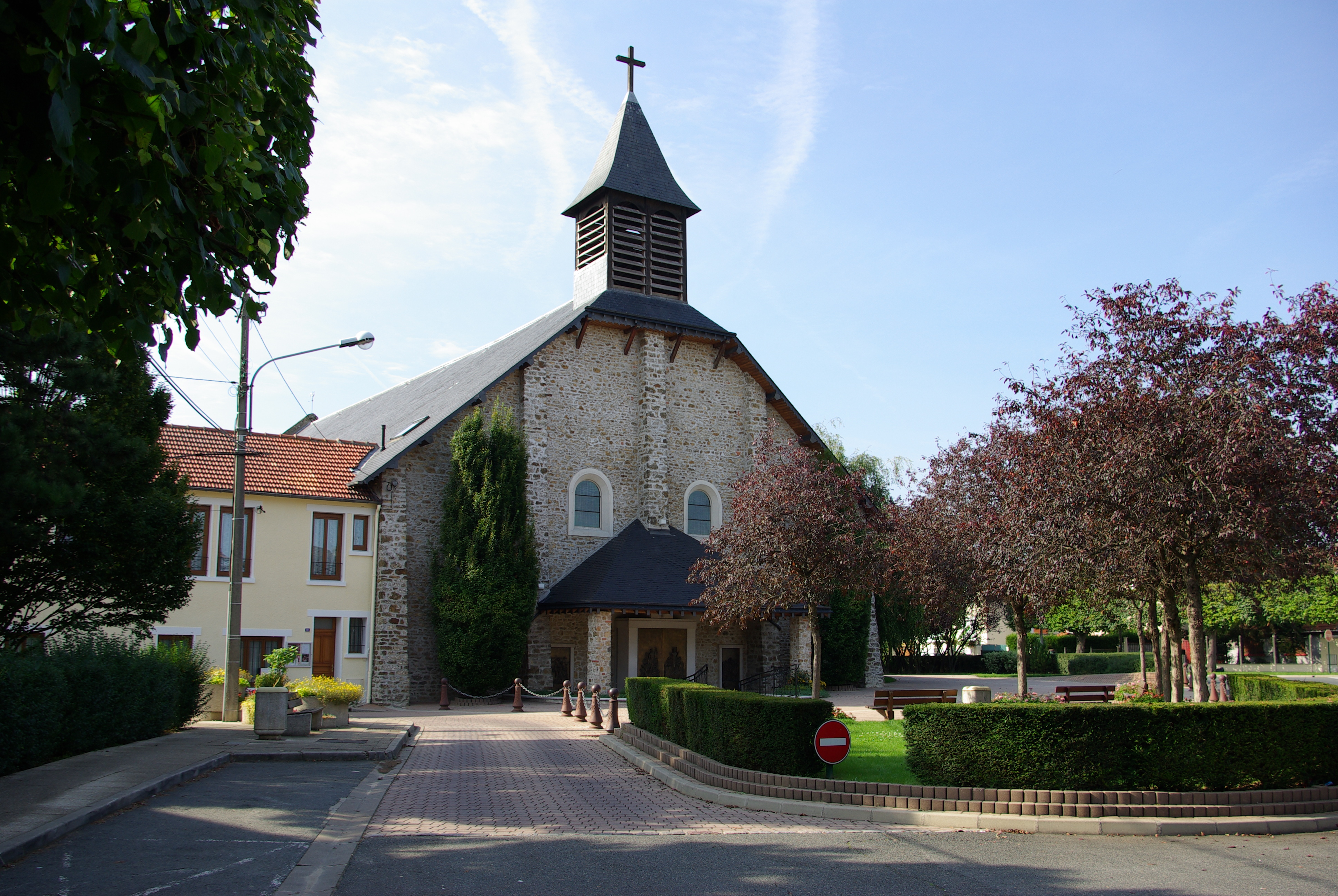 Church of Paray-Vieille-Poste (Essonne)